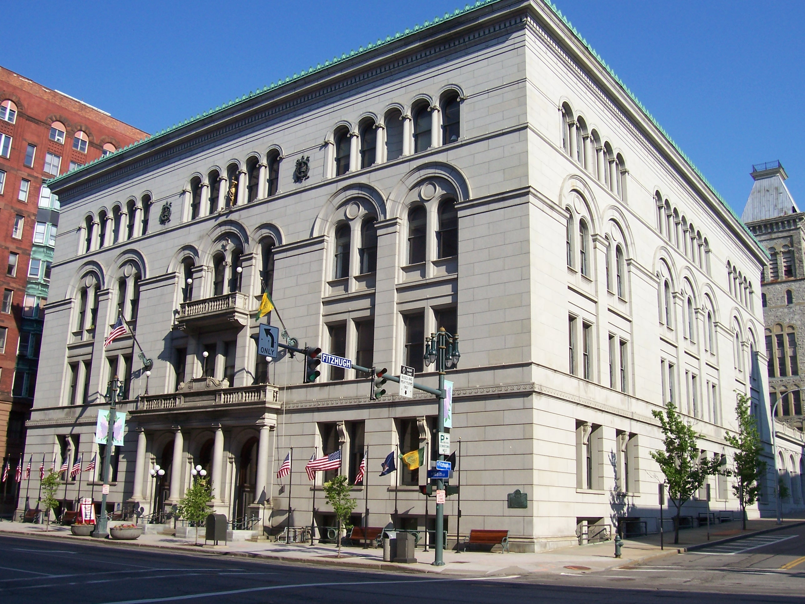 The Gordon A. Howe Monroe County, New York office building in downtown Rochester, New York